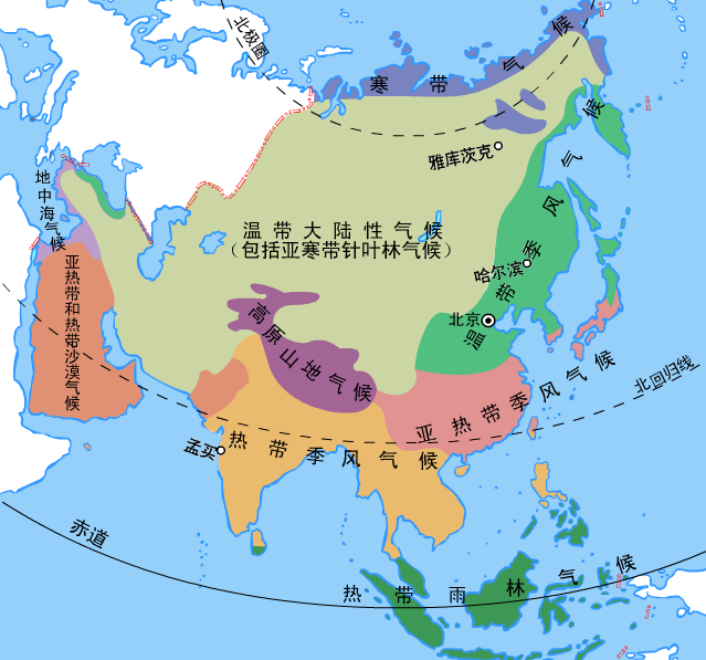 Climate maps of Asia(Chinese)